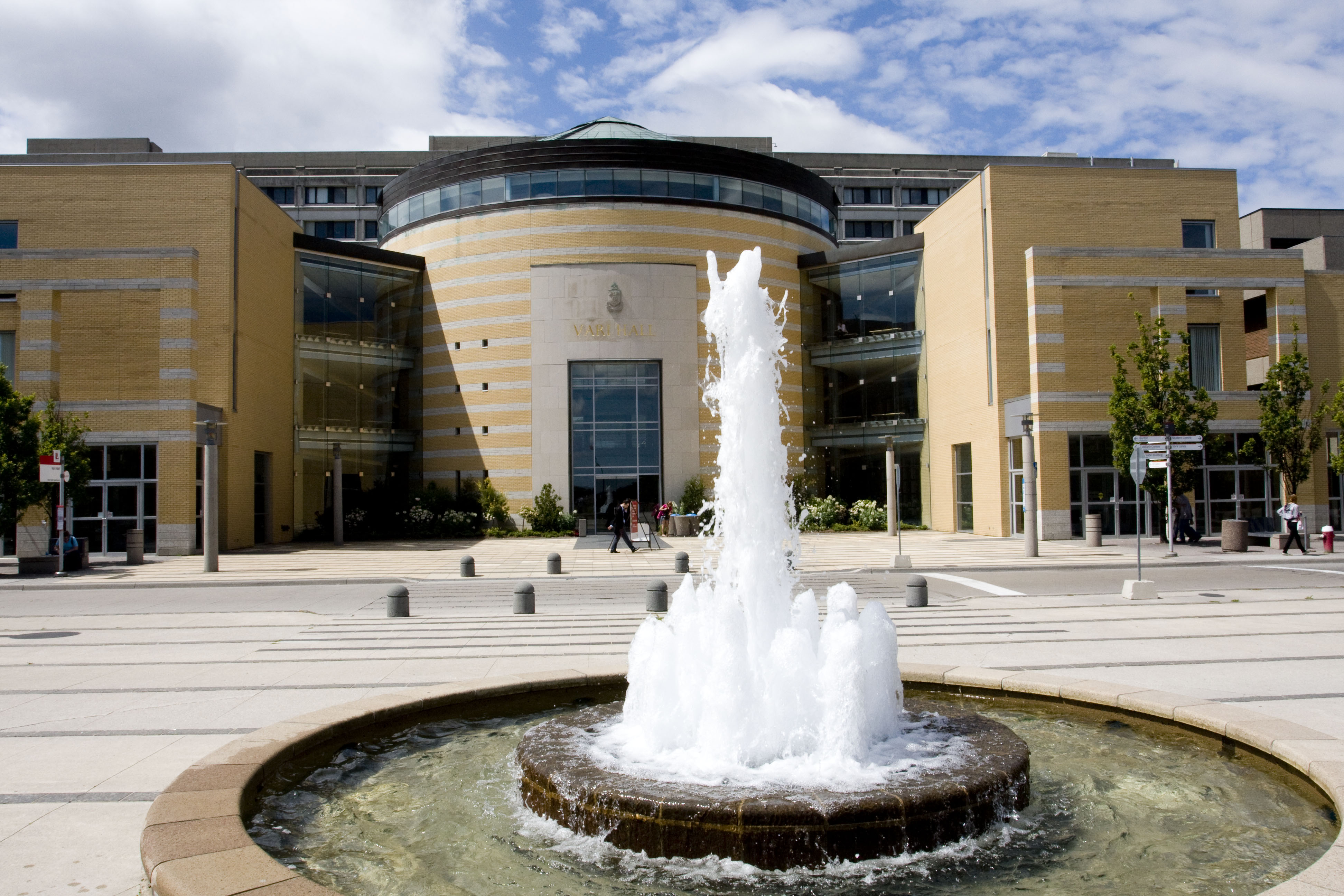 The Front of Vari Hall.